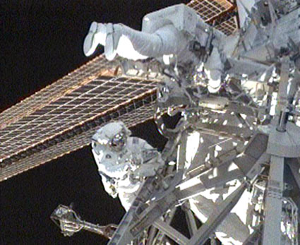 Spacewalkers Mike Foreman and Robert Satcher work on the exterior of the International Space Station during the first spacewalk of the STS-129 mission.